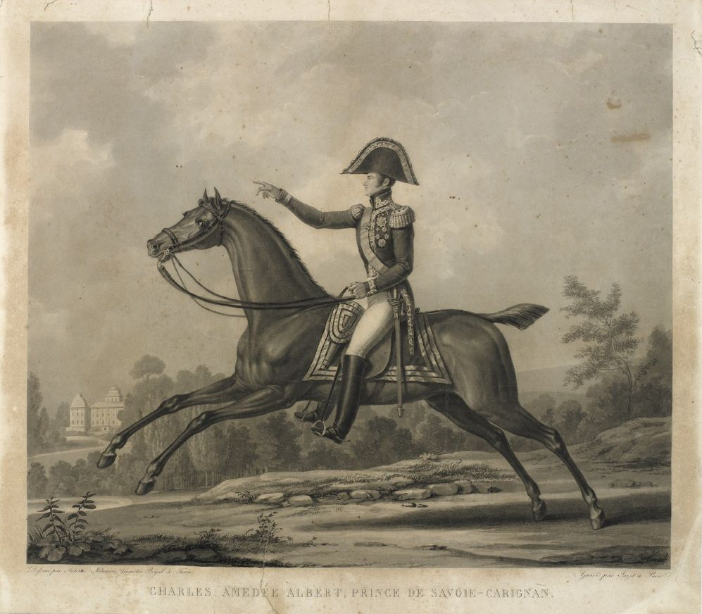 Equestrian Portrait of Prince Charles Albert of Carignano (1798-1849)